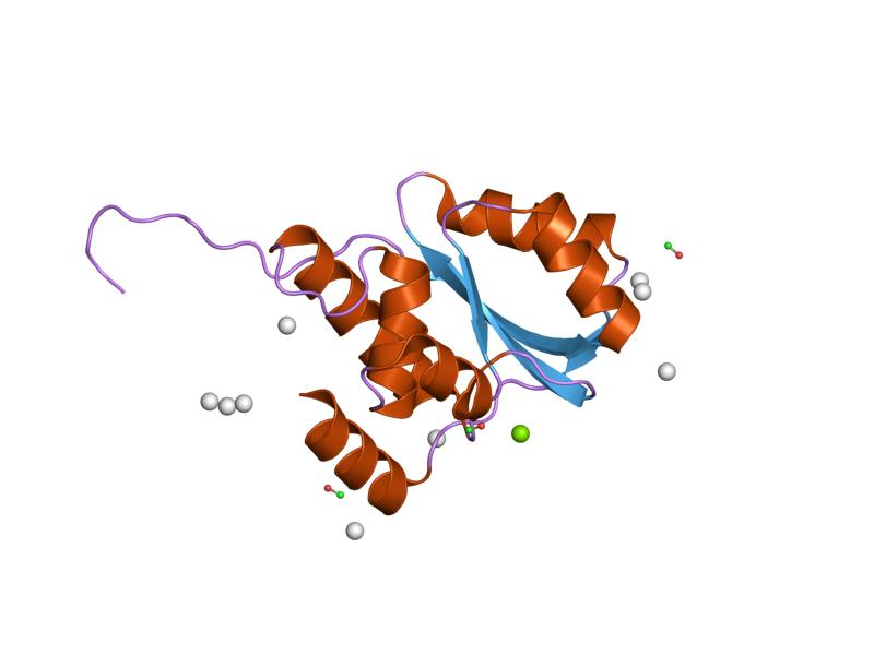 Cartoon representation of the molecular structure of protein registered with 1zd0 code.